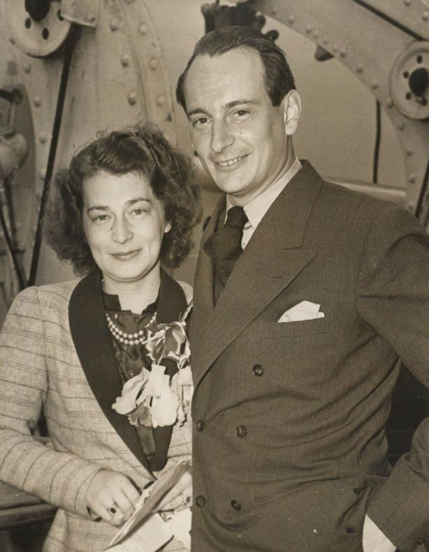 Kira Kirillovna with husband Ludwig Ferdinand Prusskim